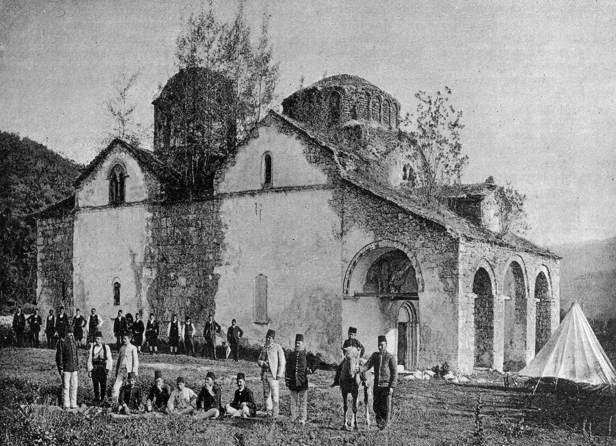 Banja Monastery near Priboj, Nova iskra 24 (1899)